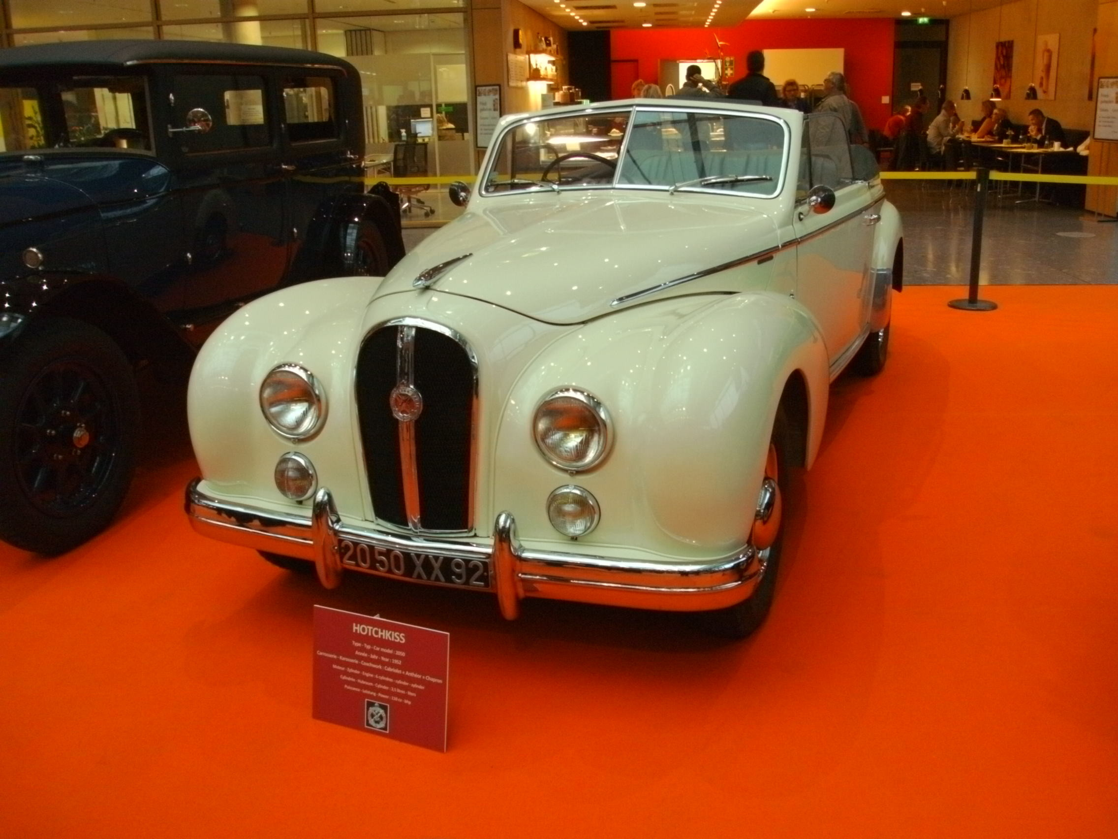 Hotchkiss Type 2050 Antheor drophead coupé, 1952